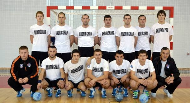 Ekipa RK VISEGRADAA